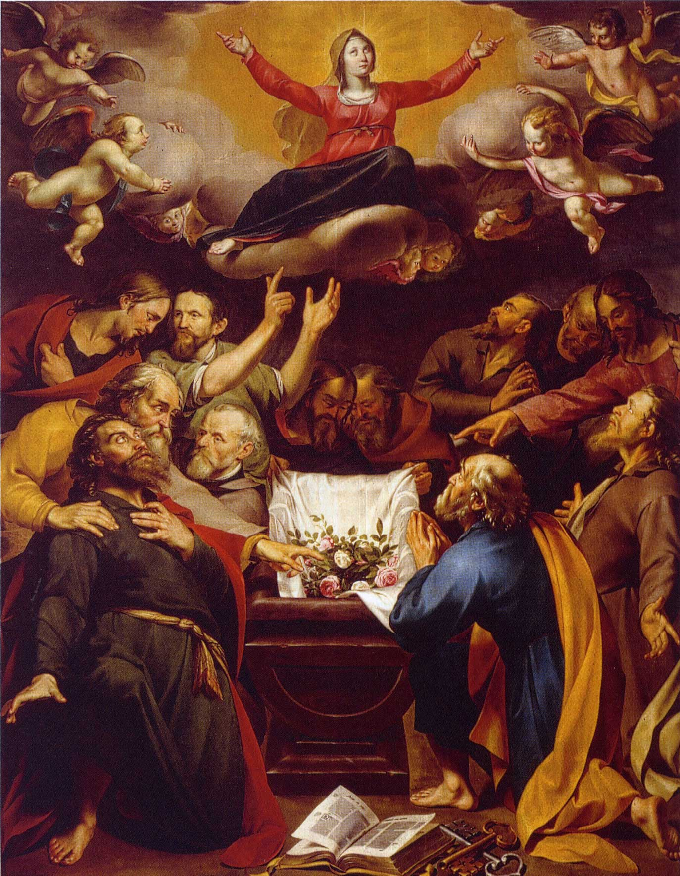 Assumption of Mary